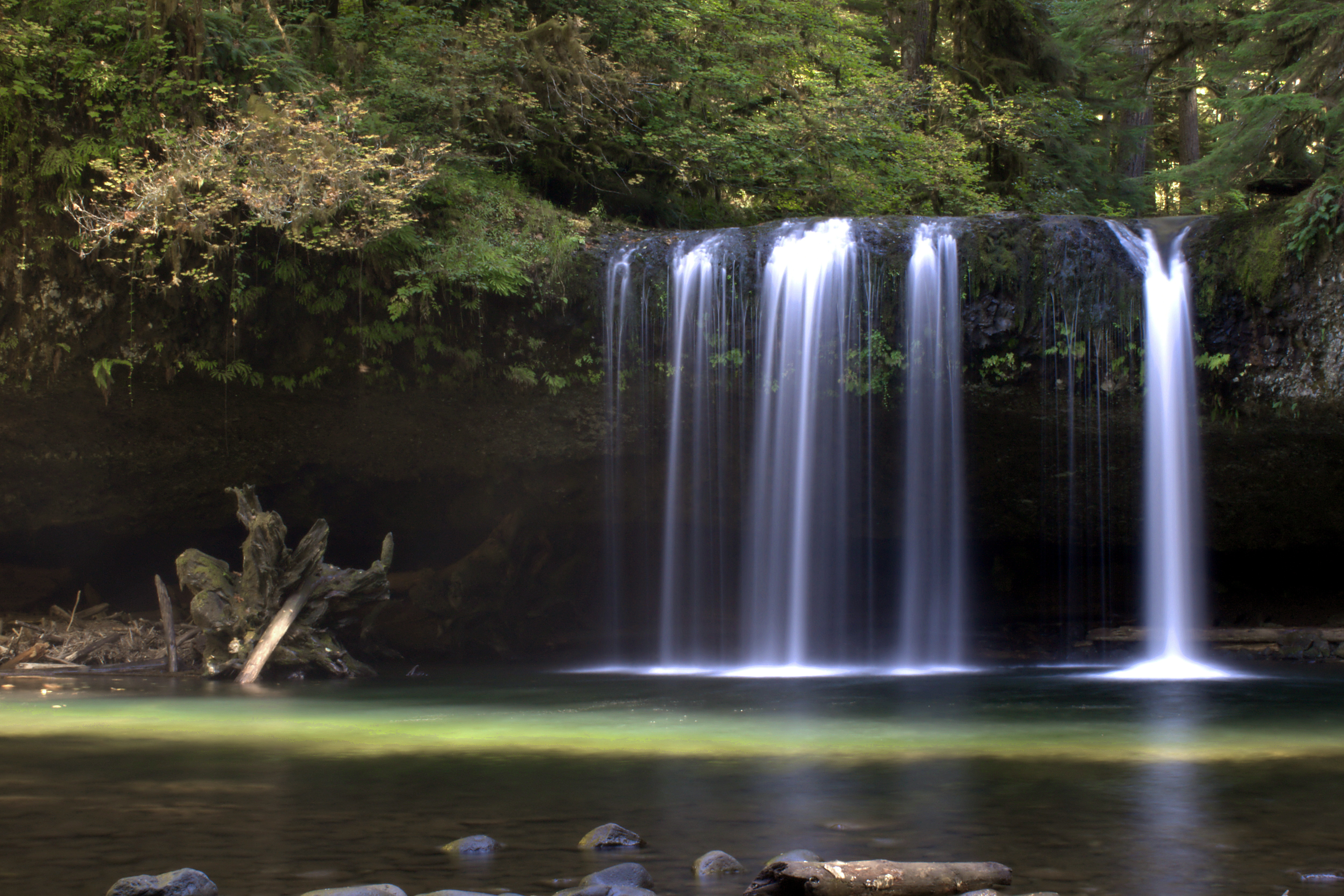 Butte Creek Falls in Oregon, USA. Taken in September 2016.